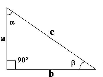 Right triangle abc with the angles α and β